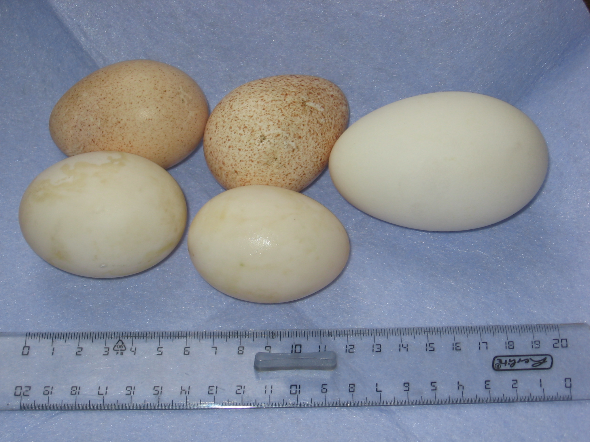 2 turkey eggs (top), 2 duck eggs, 1 goose egg(the ruler scaled in centimetres)